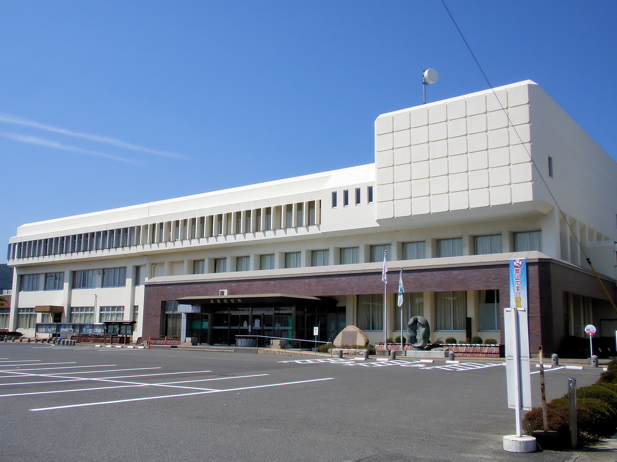 Akaiwa city office Former San'yō town office, Akaiwa District (1986.3 - 2005.3.6)